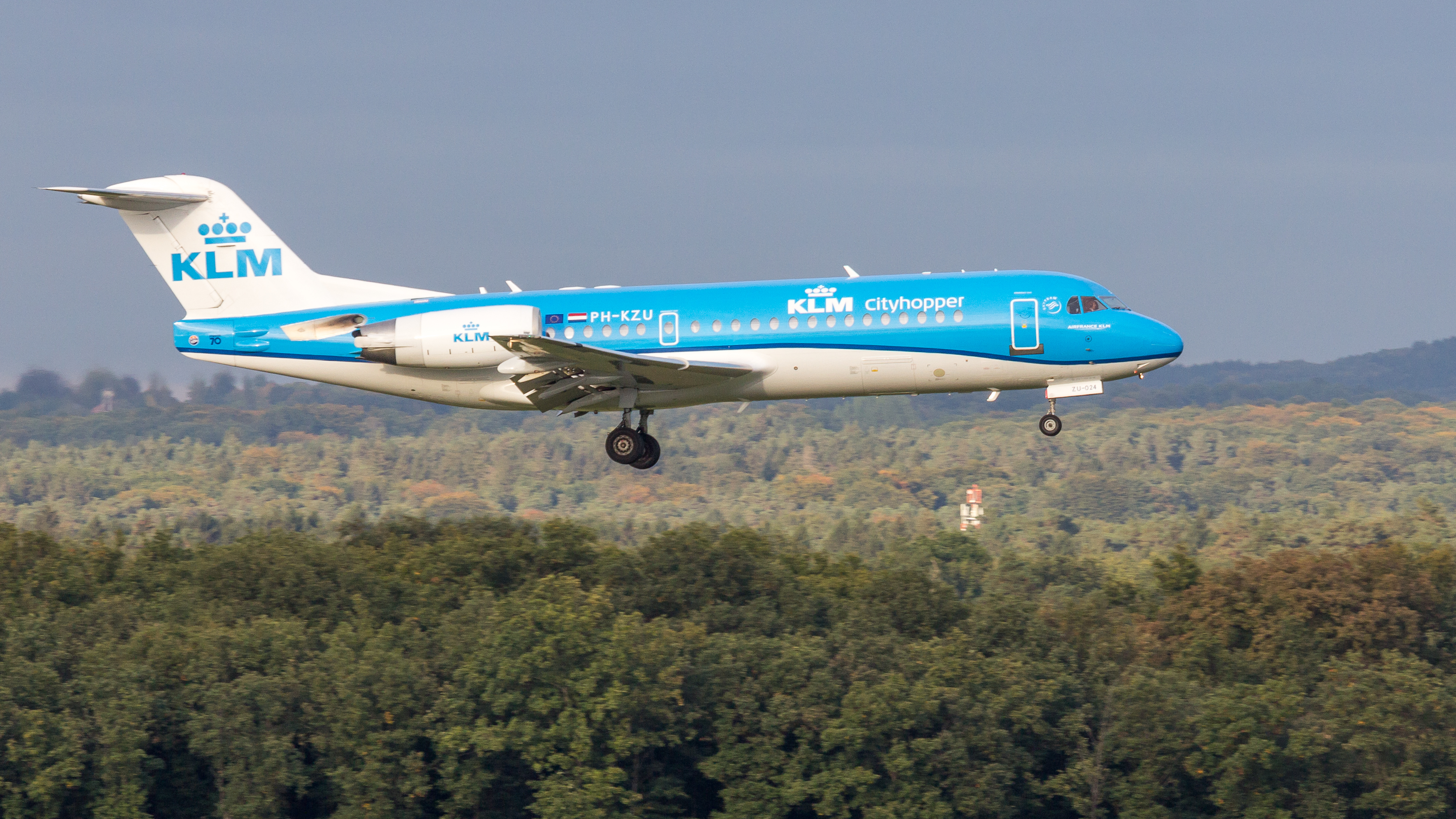 KLM Cityhopper - Fokker 70 - PH-KZU - Cologne Bonn Airport - new aircraft livery